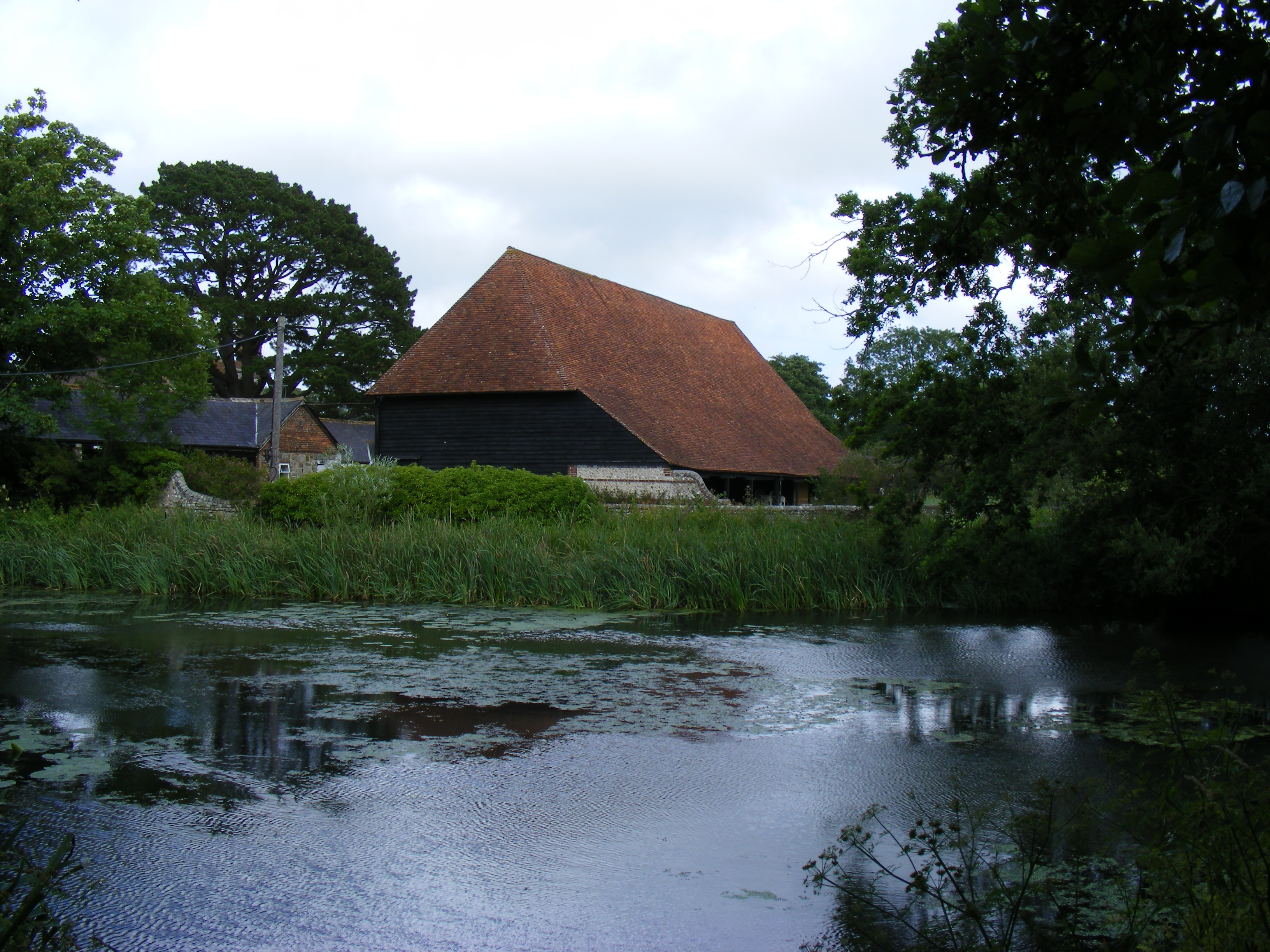 Elizabethan Great Barn at Michelham Priory Erected around 1600 it has a ten-bay oak-framed structure.